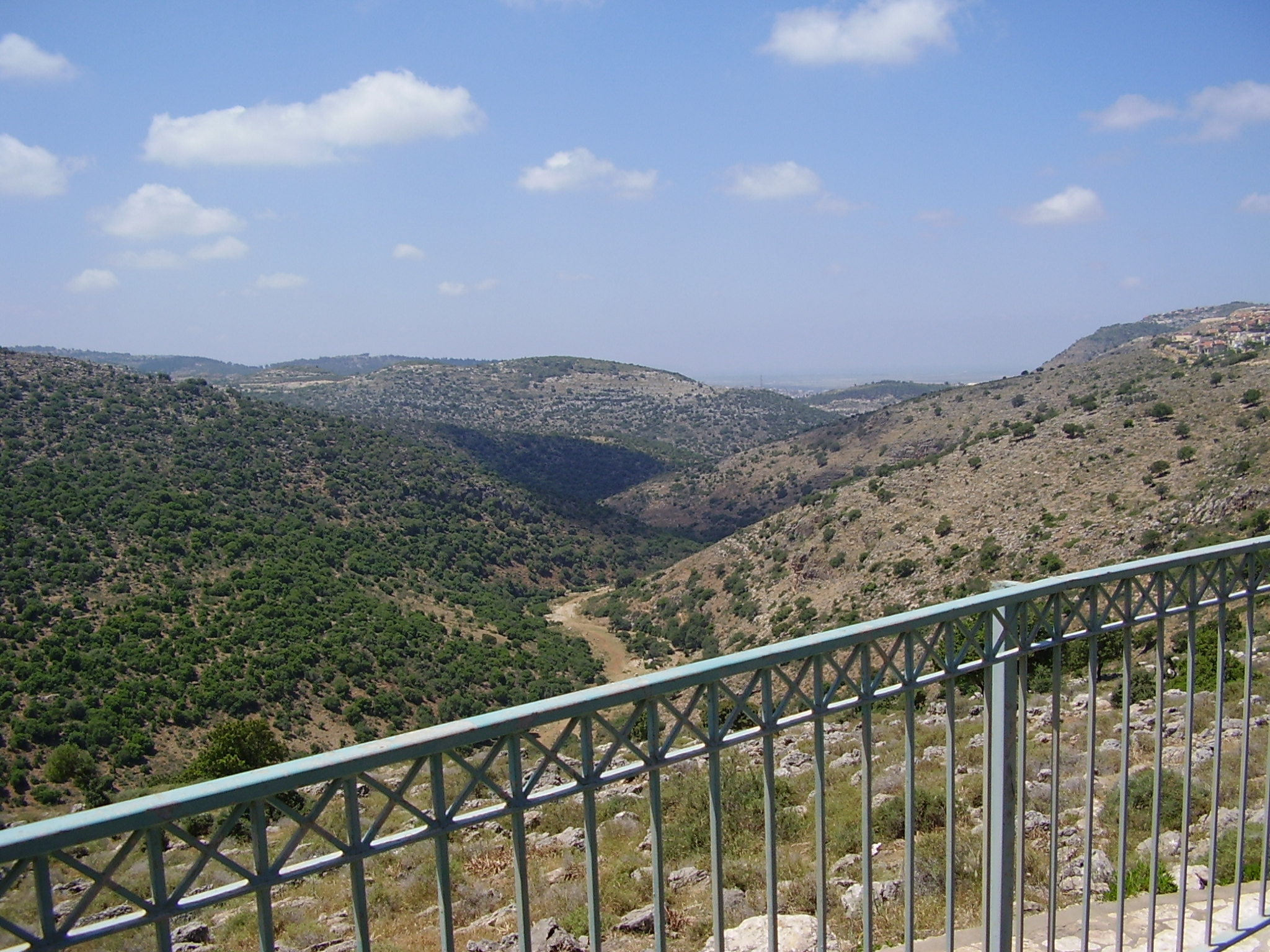 lookout point in southern carmiel